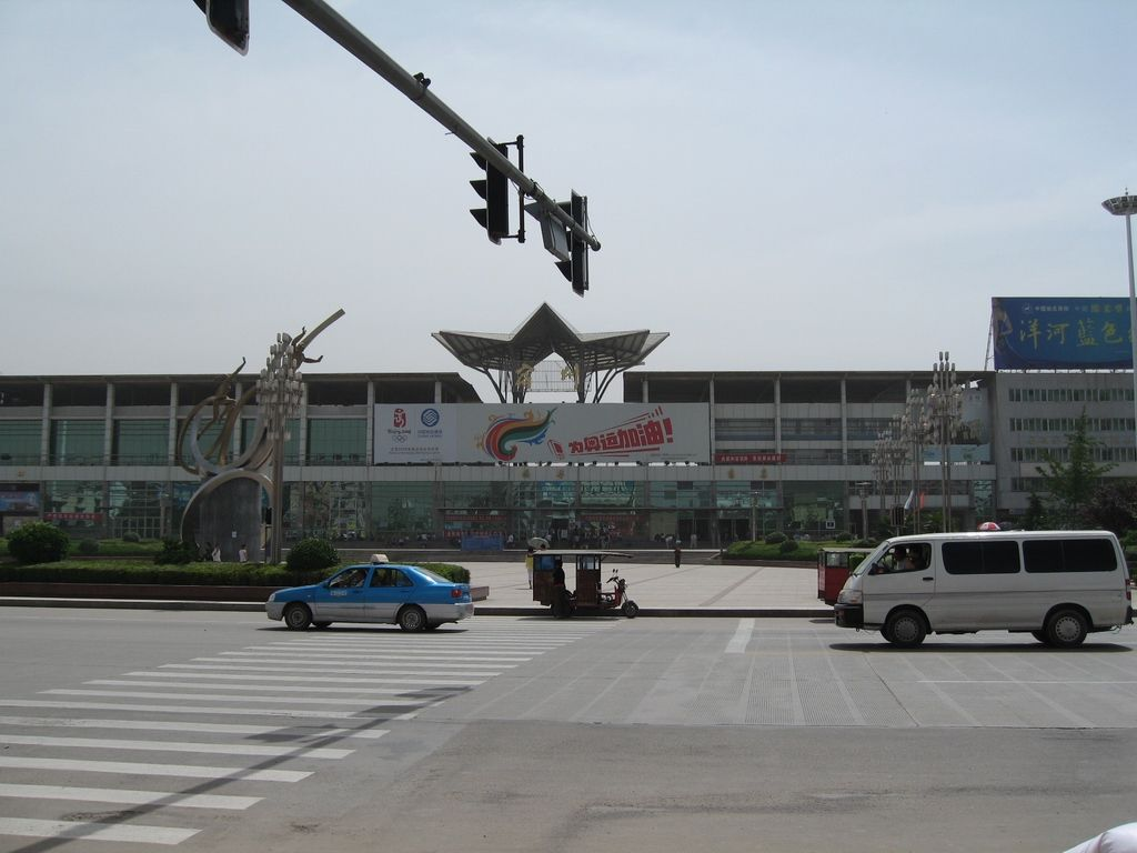 SuZhou Train Station 宿州火车站